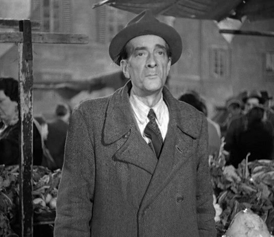 Italian actor Giulio Calì in a scene of the film Campo de' fiori